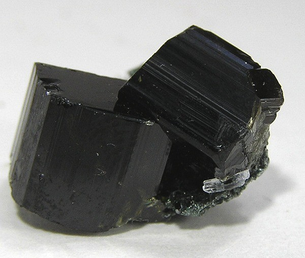 Vesuvianite Locality: Bellecombe, Châtillon, Aosta Valley, Italy (Locality at ) Size: 1.4 x 1.3 x 1.3 cm. A sharp thumber of vesuvianite from the classic Italian locality - two crystals that are super-lustrous and sharp as razors, with a bit of accenting matrix. Vesuvianite got its name from Mt. Vesuvius, also in Italy, where it was first found. Old Gary Hansen dealer stock.